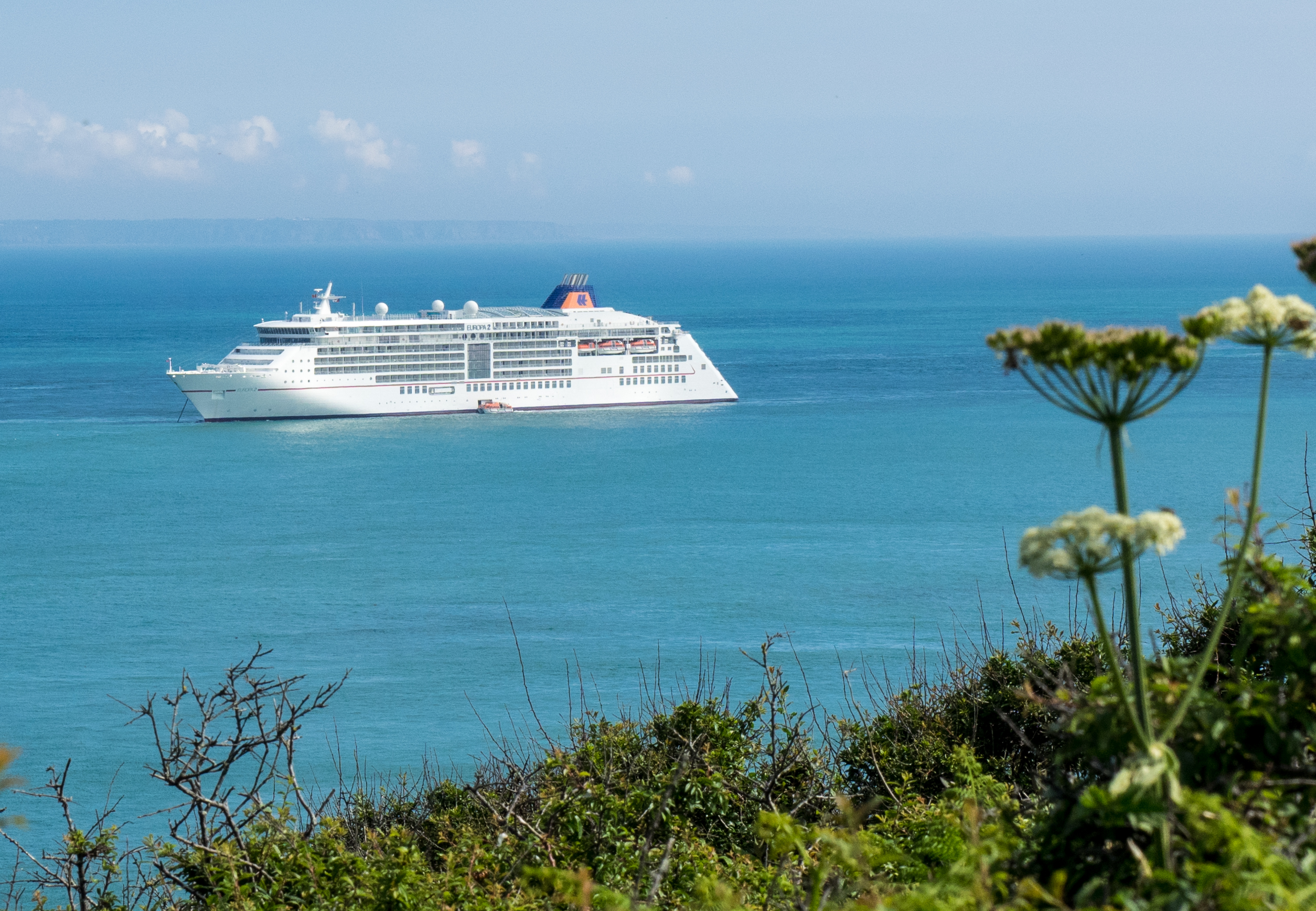 MV Europa 2 at Sark (Channel Island)